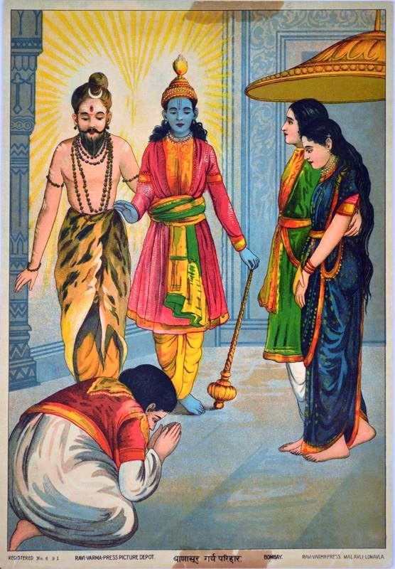 Early Lithograph by Ravi Varma Press Banasur Garva Parihar